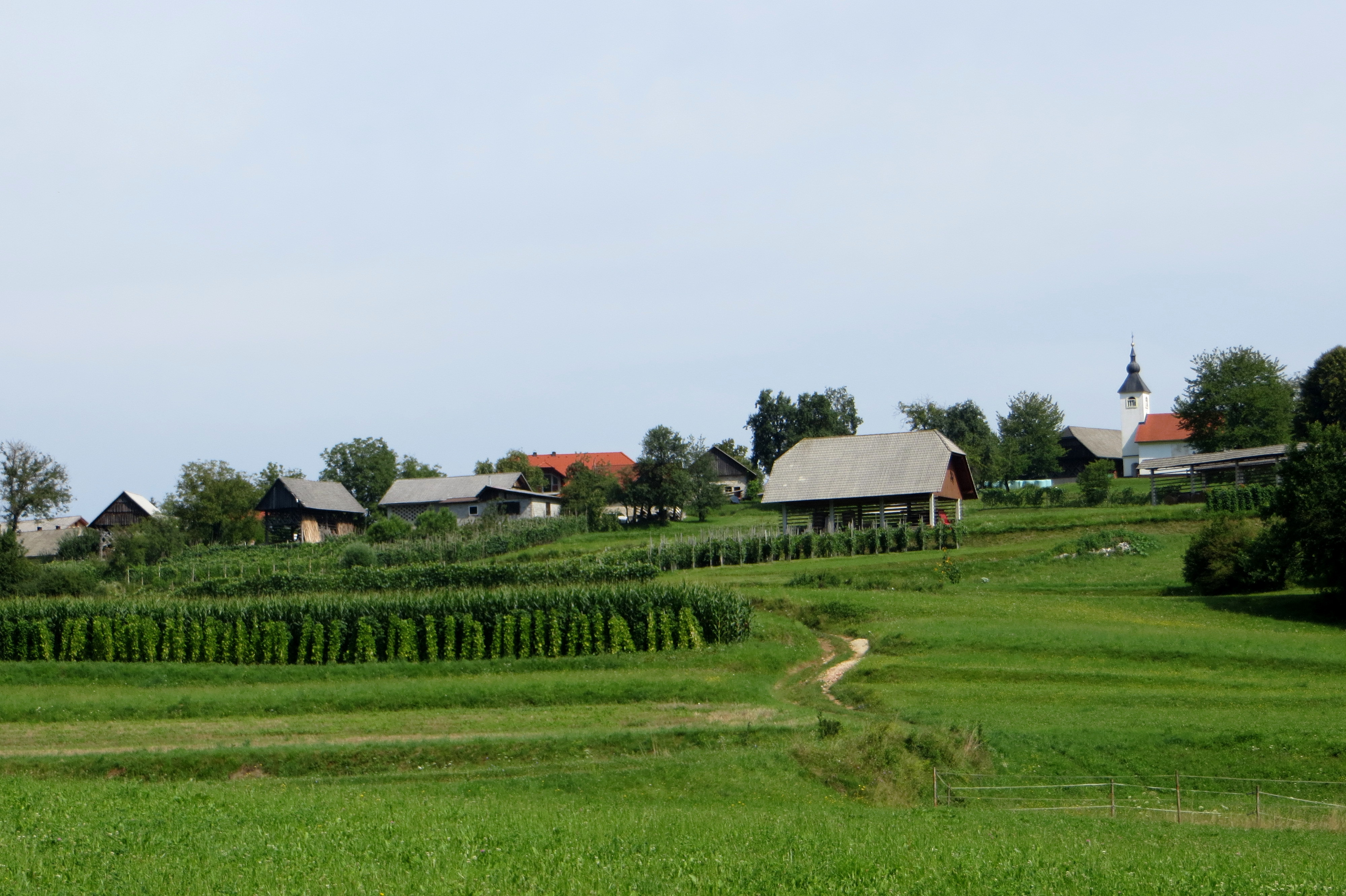 Budganja Vas, Municipality of Žužemberk, Slovenia